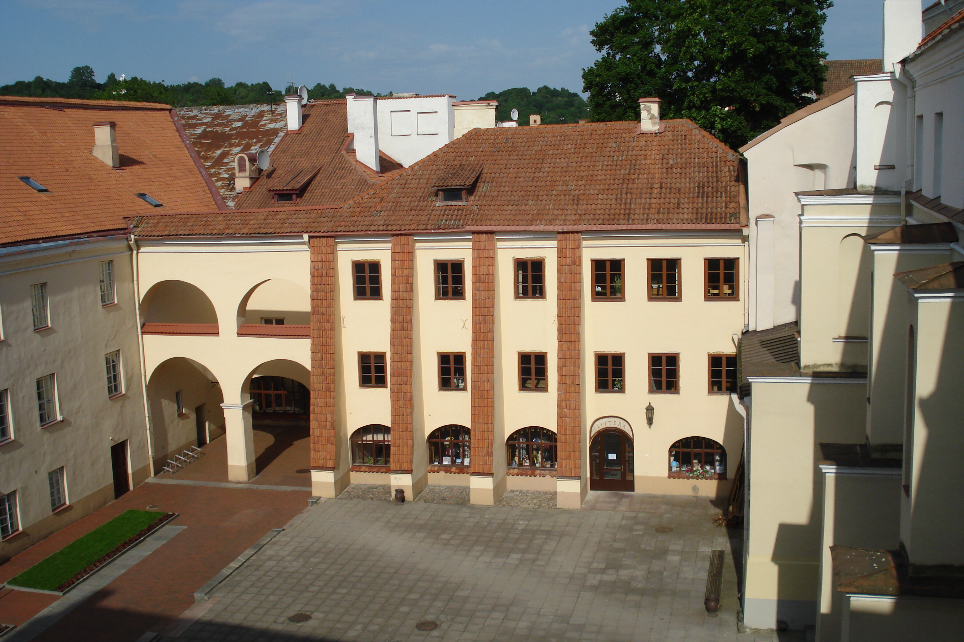 Sarbievius Courtyard (Vilnius University)